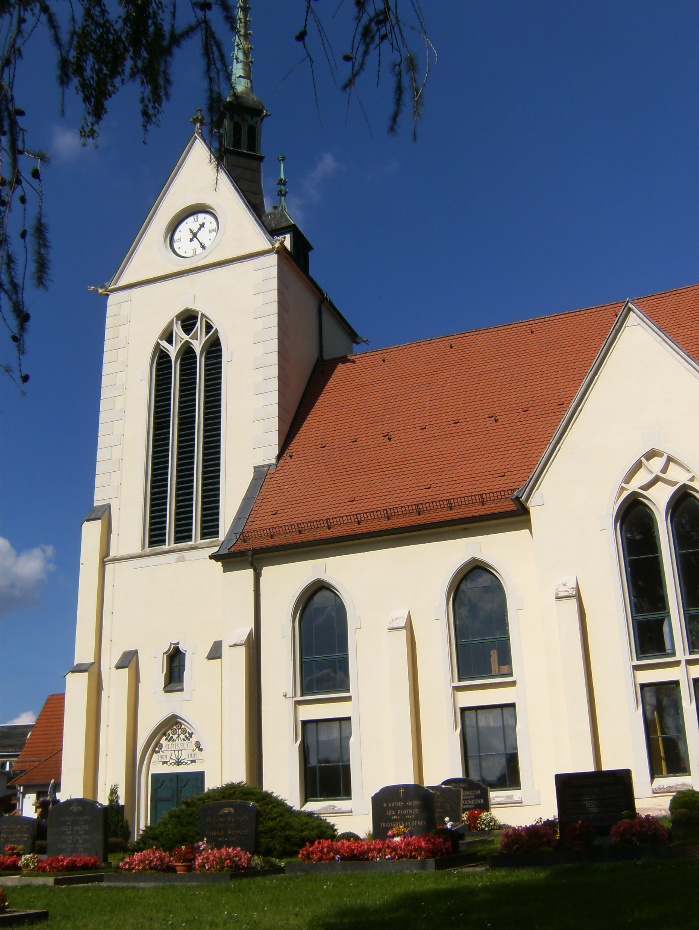 Neogothic church in Oberndorf (a district of Kraftsdorf in Landkreis Greiz (Thuringia)), built in 1904/05.